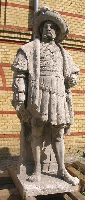 Central statue of the monument group № 19 in the former Siegesallee in Berlin commemorating Joachim I Nestor, Elector of Brandenburg. Sculptor: Johannes Götz. Statue unveiled on 28 August 1900. Shown here in the Spandau Citadel in August 2009, before its conservation-restoration.